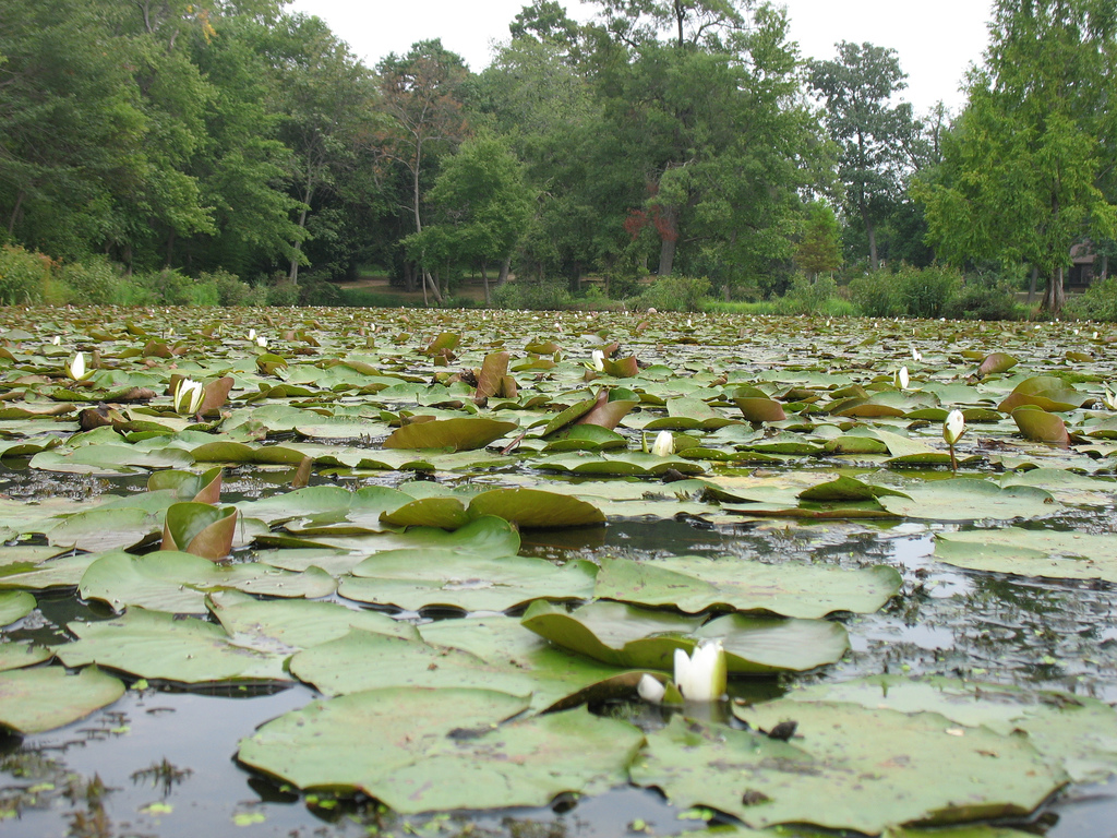 Ponds at Kenilworth Park